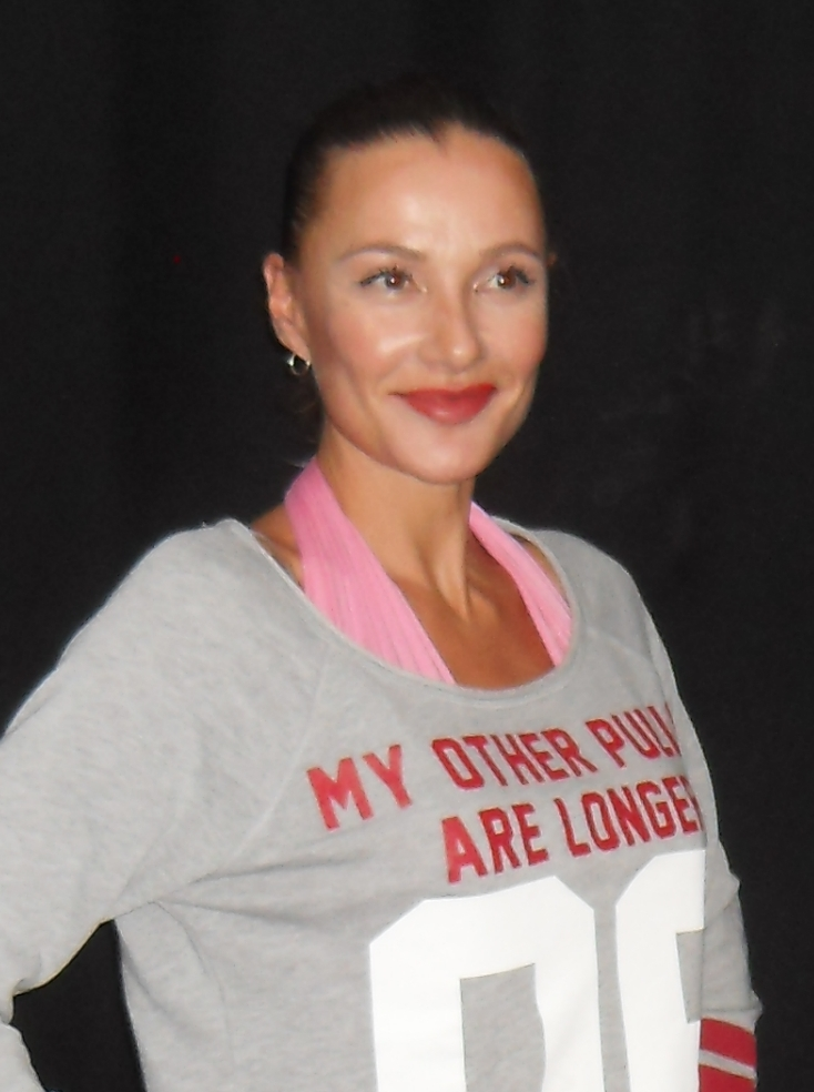 Whigfield, Backstage at G-A-Y at Heaven, October 2013